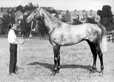 Tetratema